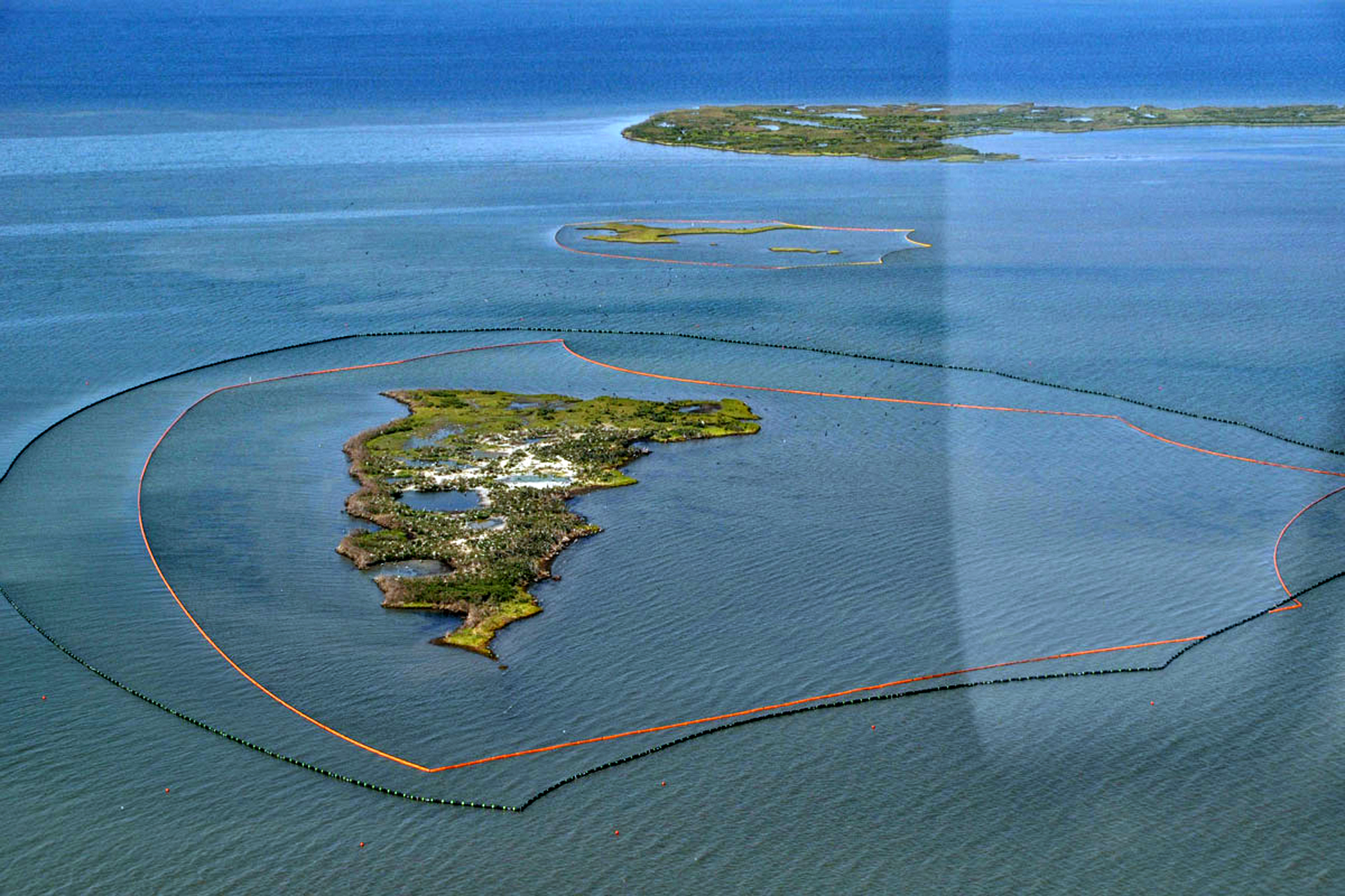 An oil containment boom deployed by U.S. Navy Supervisor of Salvage and Diving personnel surrounds New Harbor Island, La. to mitigate environmental damage from the Deepwater Horizon oil spill.